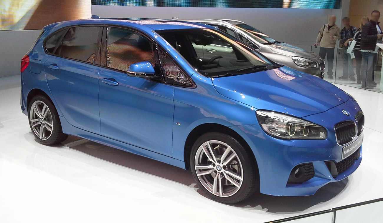 BMW 2-Series F45 Active Tourer photographed at the 2014 Geneva Motor Show, Geneva, Switzerland.